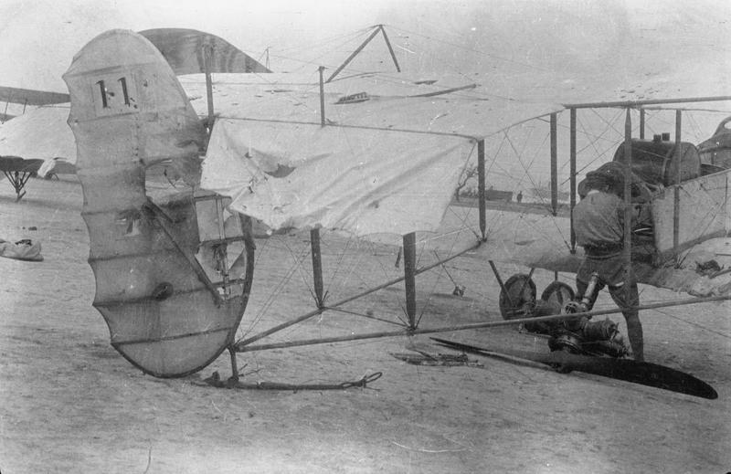 Knatchbull M (capt the Hon) Collection No. 3 Squadron R. N. A. S. Henri Farman aeroplane which had been hit in the air by Turkish gun fire but landed safely. Pilot: Fleet-Commander R. Marix, D. S. O. Observer: Lieutenant the Hon M. Knatchbull, M. C. Gallipoli, June 1915.